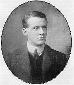 Arnold Spencer-Smith (1883-1916) was an English clergyman and amateur photographer who joined Sir Ernest Shackleton's Imperial Trans-Antarctic Expedition, 1914-17, as Chaplain and photographer on the Ross Sea Party.